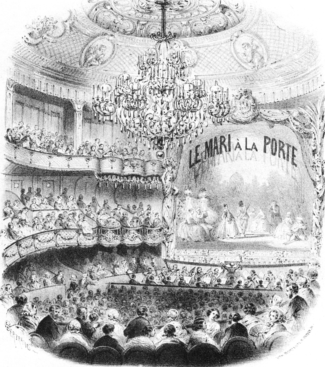 The interior of the Théâtre des Bouffes-Parisiens (Salle Choiseul) during a performance of Le mari à la porte, a 1-act opérette by Jacques Offenbach, as depicted on the cover of a piano arrangement of the overture published by Heugel in Paris in 1859